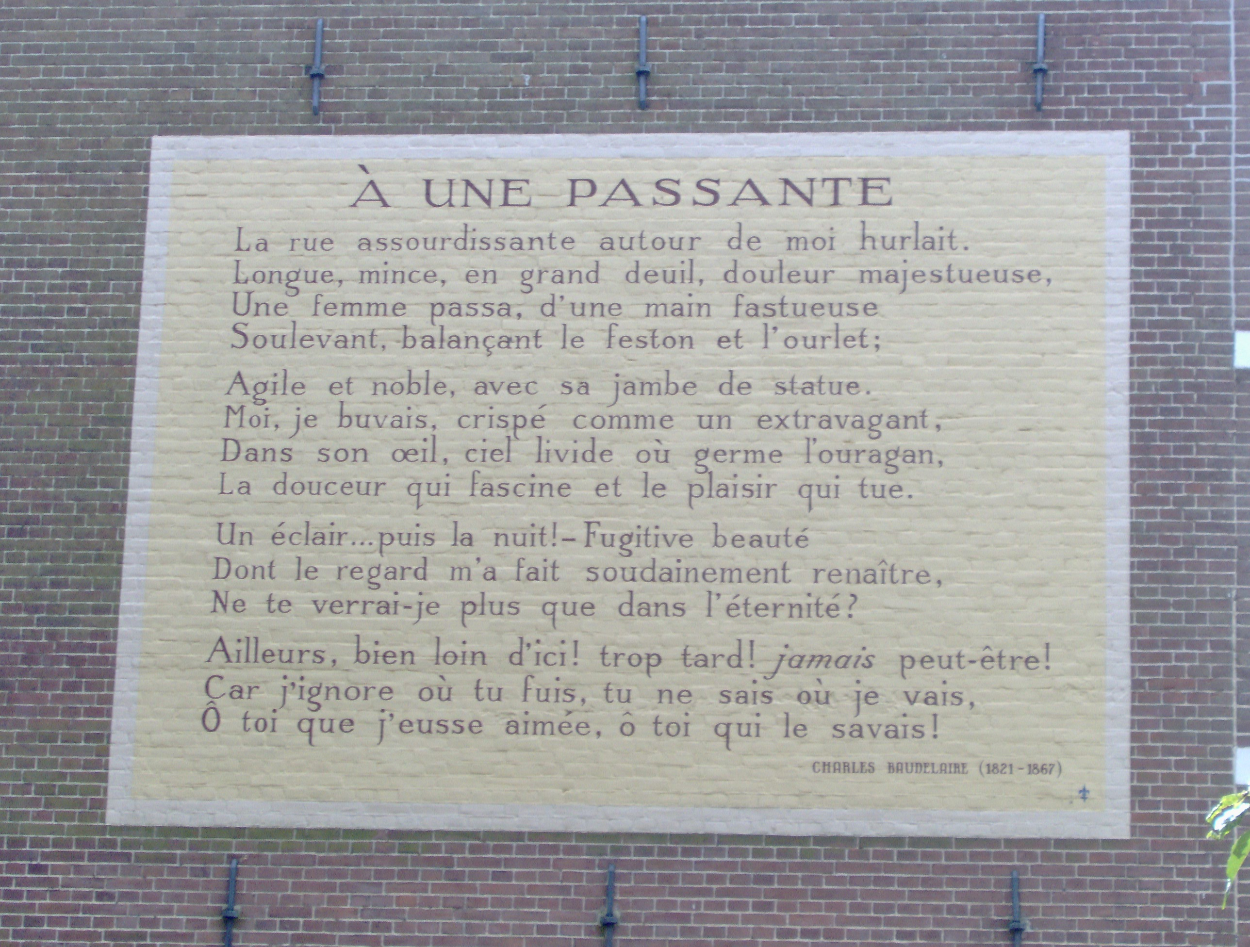 The poem À une passante of the French poet Charles Baudelaire on a wall of the building at the Zoeterwoudsesingel 55 in Leiden, The Netherlands.